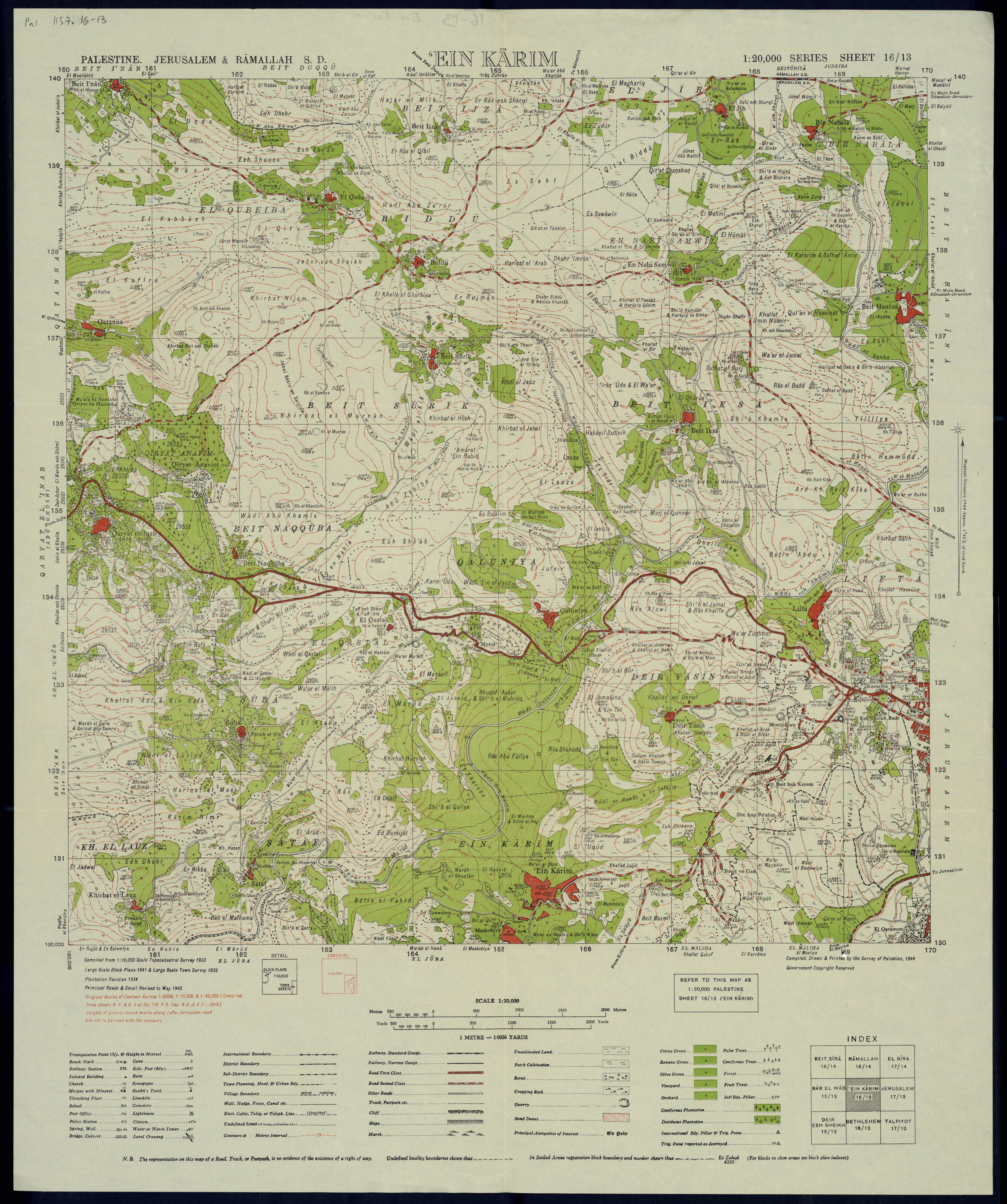 Survey of Palestine maps